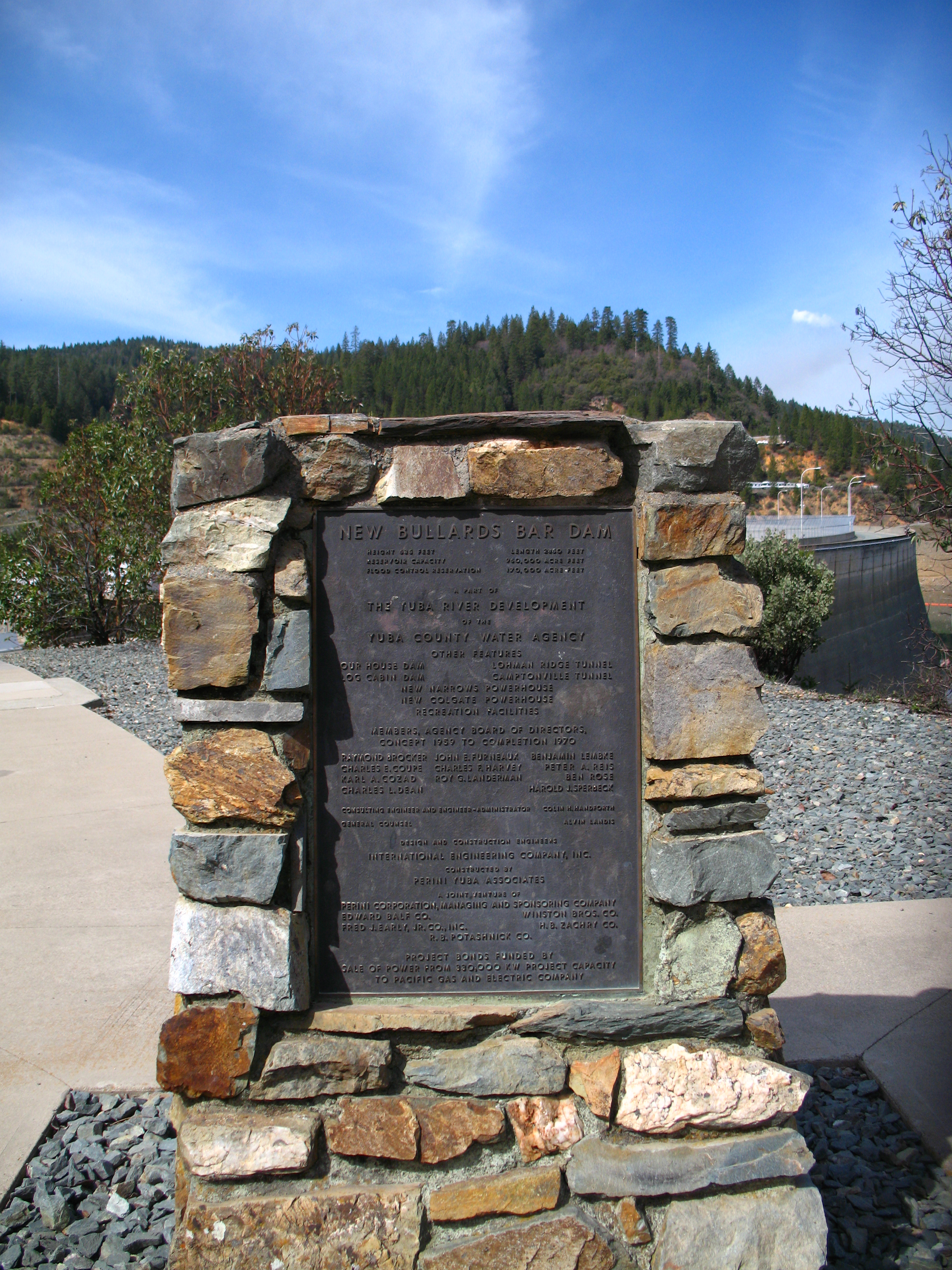 Memorial on Bullards Bar Dam